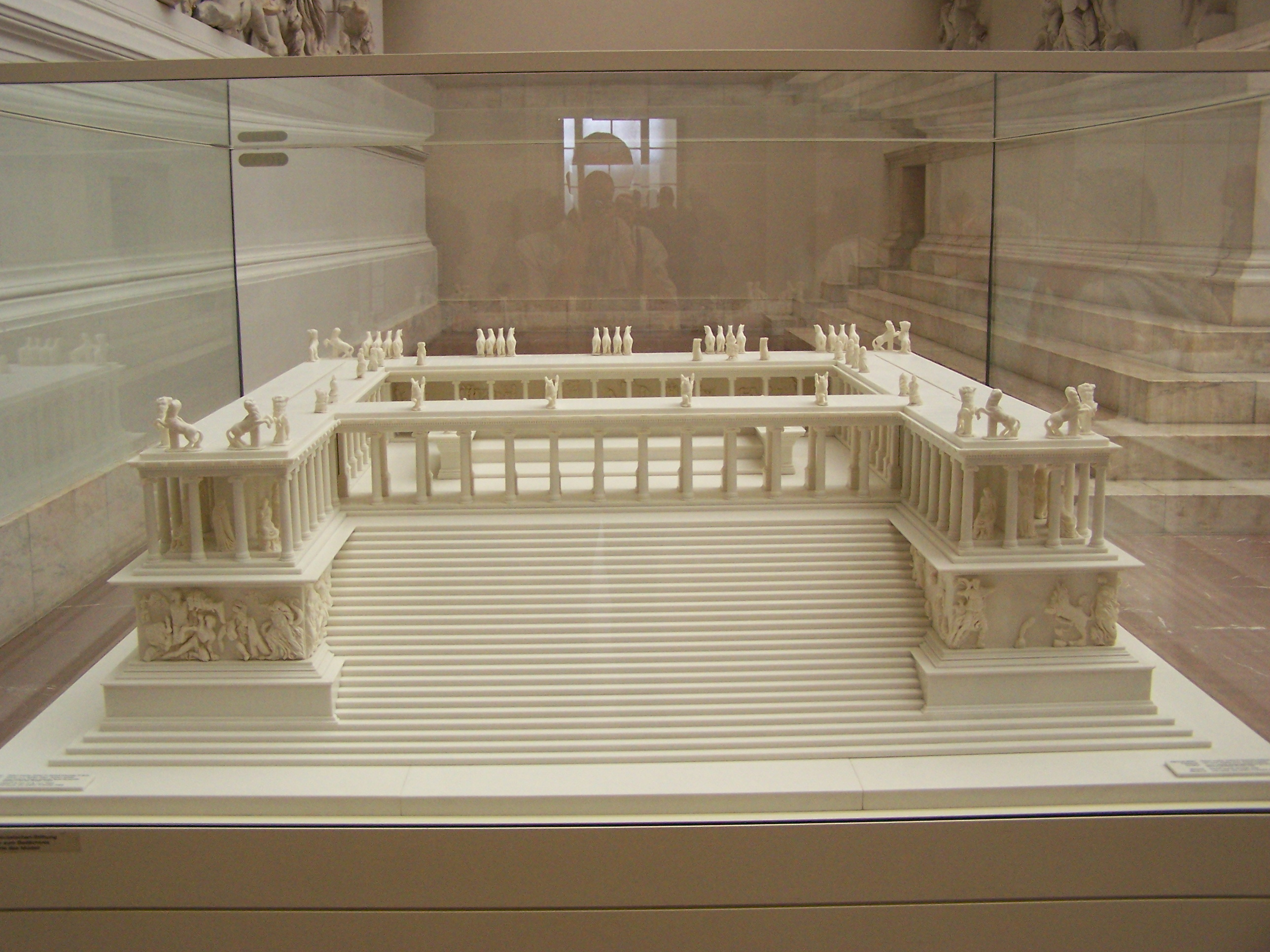 Model of the altar to Zeus in the Pergamonmuseum, Berlin.